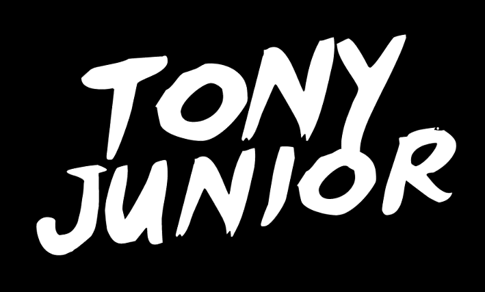 Tony Junior's logo